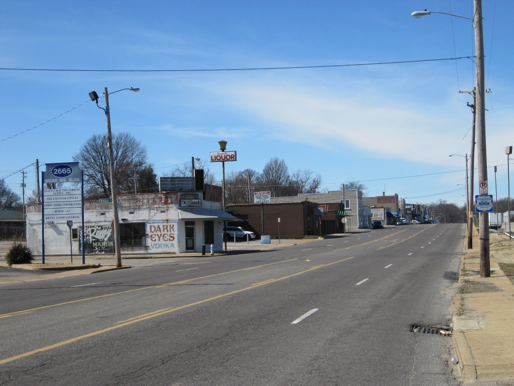 Broad Avenue in the Binghampton neighborhood of Memphis, Tennessee.